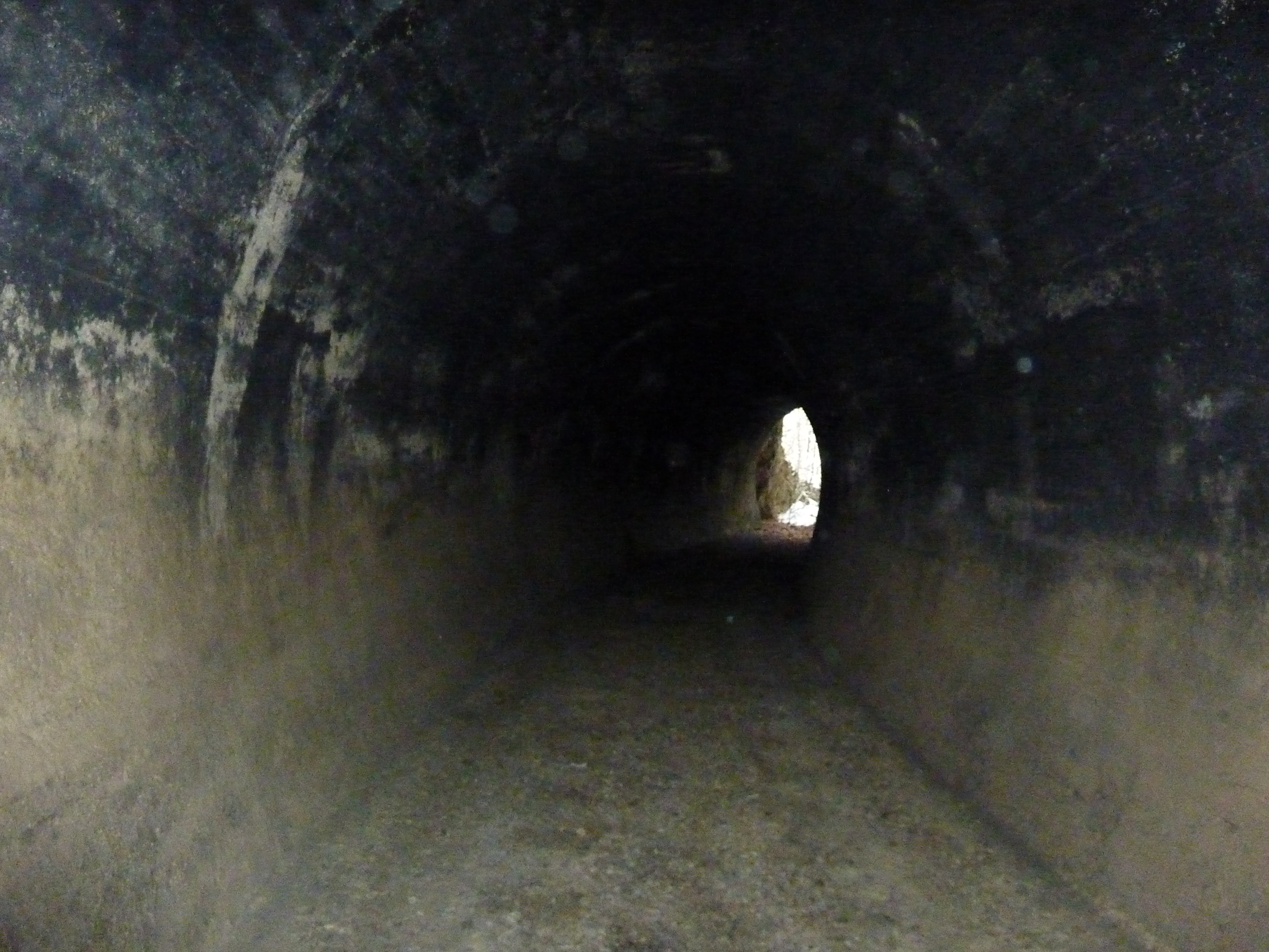 The inside of the 44 meter long curved tunnel from Nădrab.